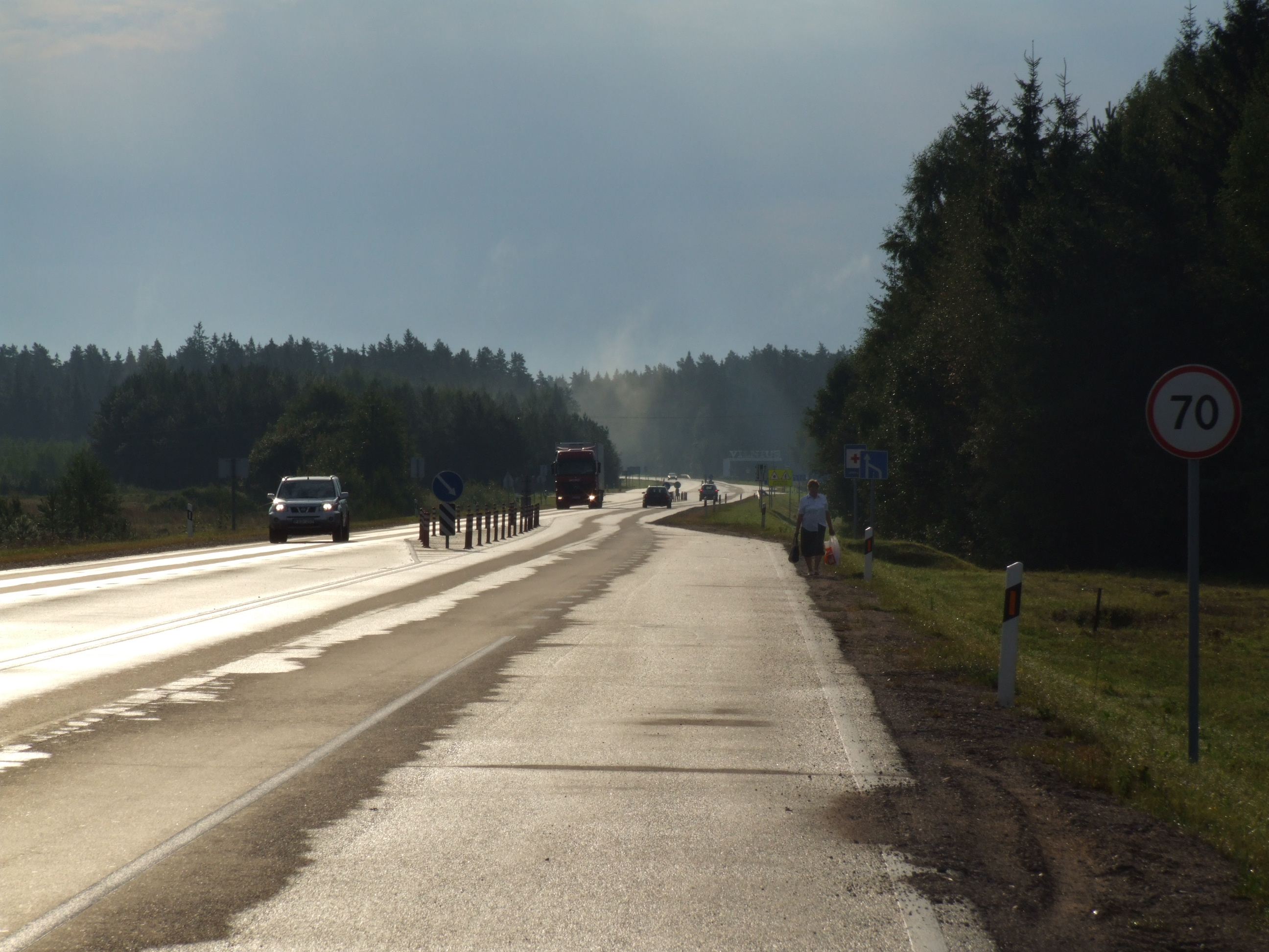 A16 road in Lithuania (near Vilnius)